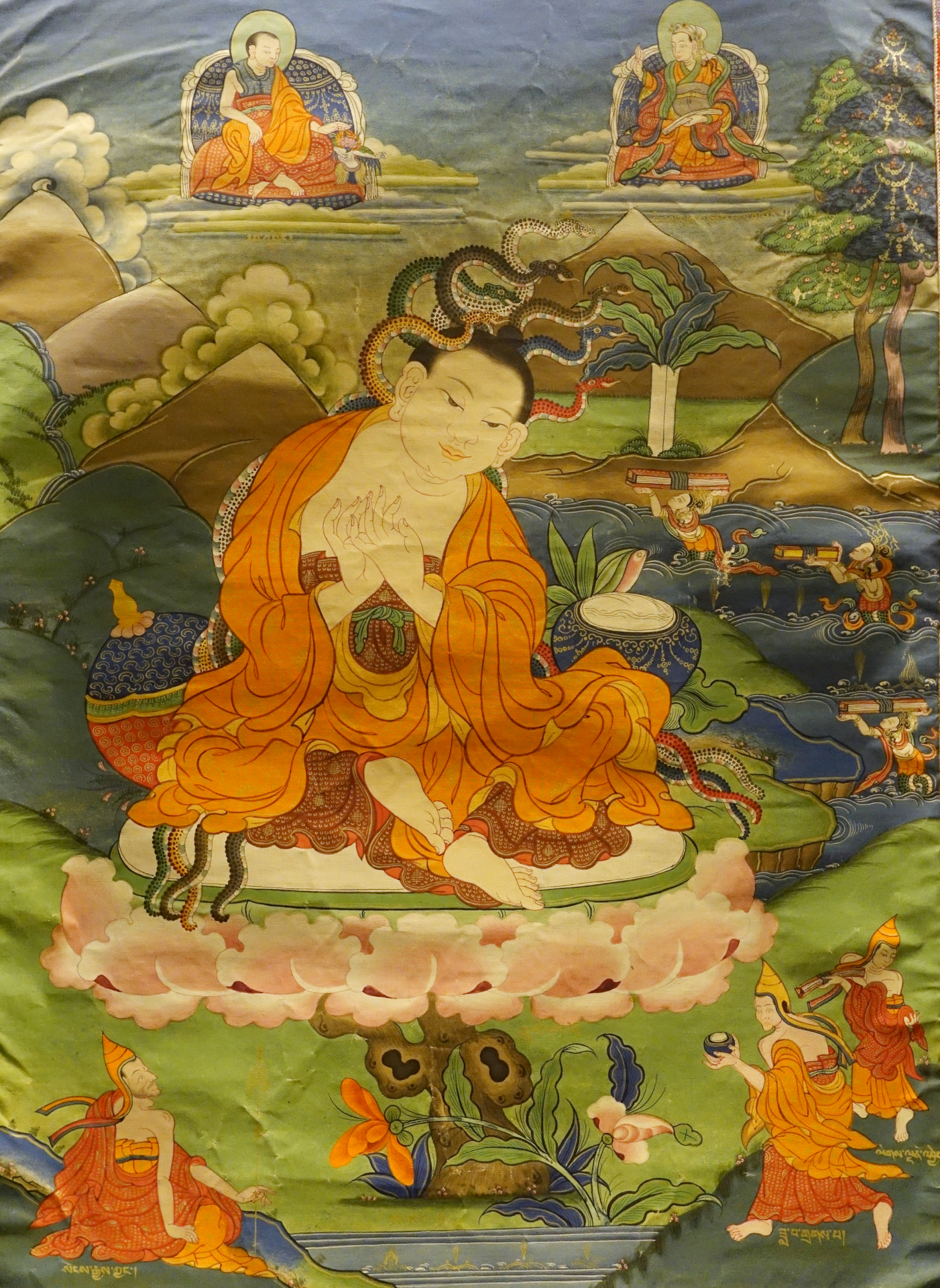 Exhibit in the Sichuan Provincial Museum (四川省博物院), also known as the Sichuan Museum, 251 Huanhua S Road, Chengdu, Sichuan, China. This work is old enough so that it is in the public domain.